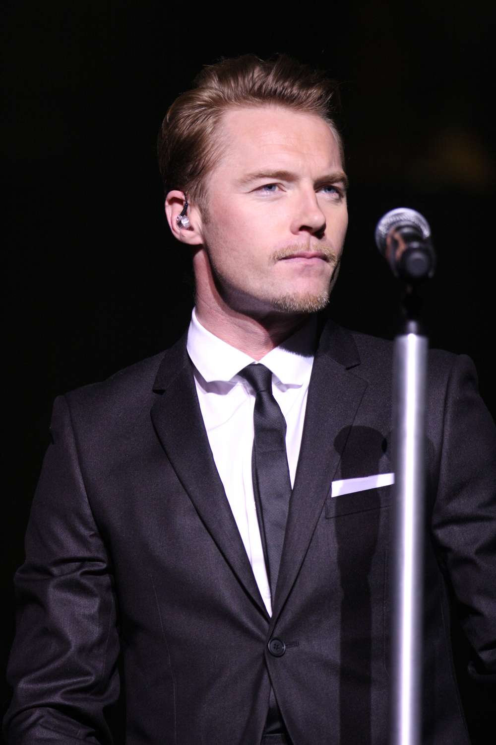 Ronan Keating At State Theatre, Sydney, Australia